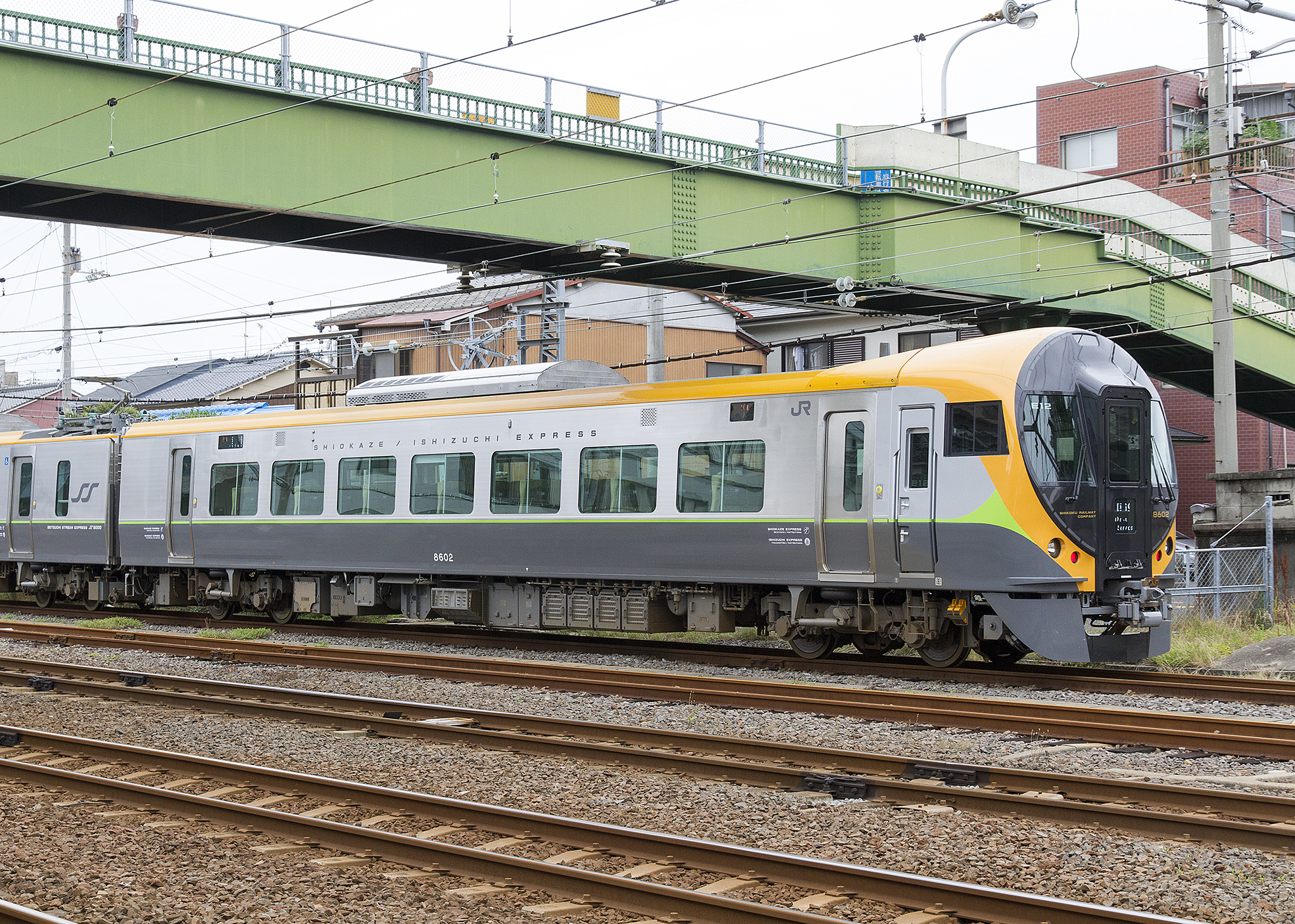 JR Shikoku 8600 series EMU car 8602 of set E12 near Takamatsu Station